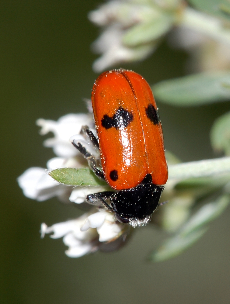 Clytra cf. quadripunctata, Bedarieux, Languedoc-Roussillon, France